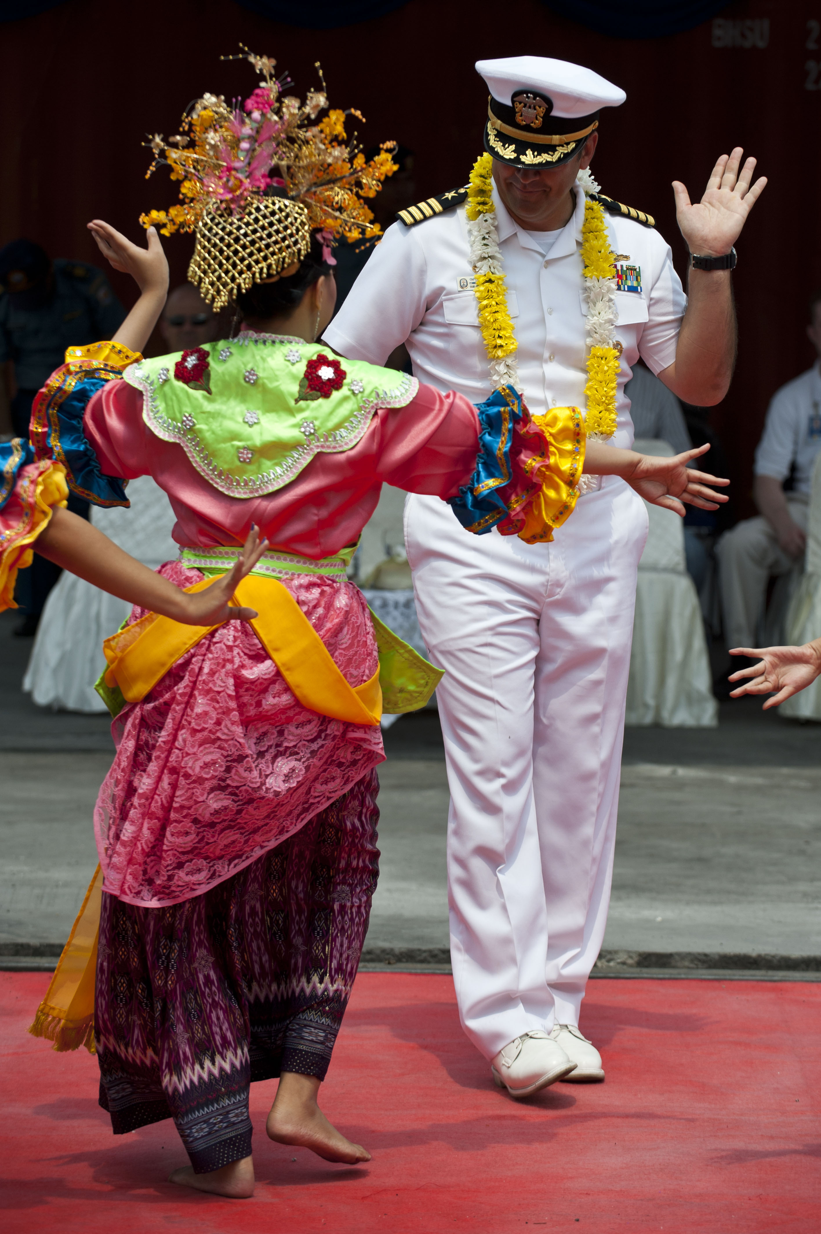 JAKARTA, Indonesia. Capt. Tom Disy, commanding officer of the Ticonderoga-class guided-missile cruiser USS Cowpens (CG 63), enjoys a traditional Indonesian dance on the pier shortly after the ship pulled into port. Cowpens is part of the George Washington Carrier Strike Group based out of Yokosuka, Japan, and is conducting a patrol of the western Pacific in support of regional security and stability of the Asia-Pacific region. The U.S. Navy has a 237-year heritage of defending freedom and projecting and protecting U.S. interests around the globe. Join the conversation on social media using #warfighting. (U.S. Navy photo by Mass Communication Specialist 3rd Class Paul Kelly/Released) 121007-N-TX154-631 Join the conversation navylive.dodlive.mil